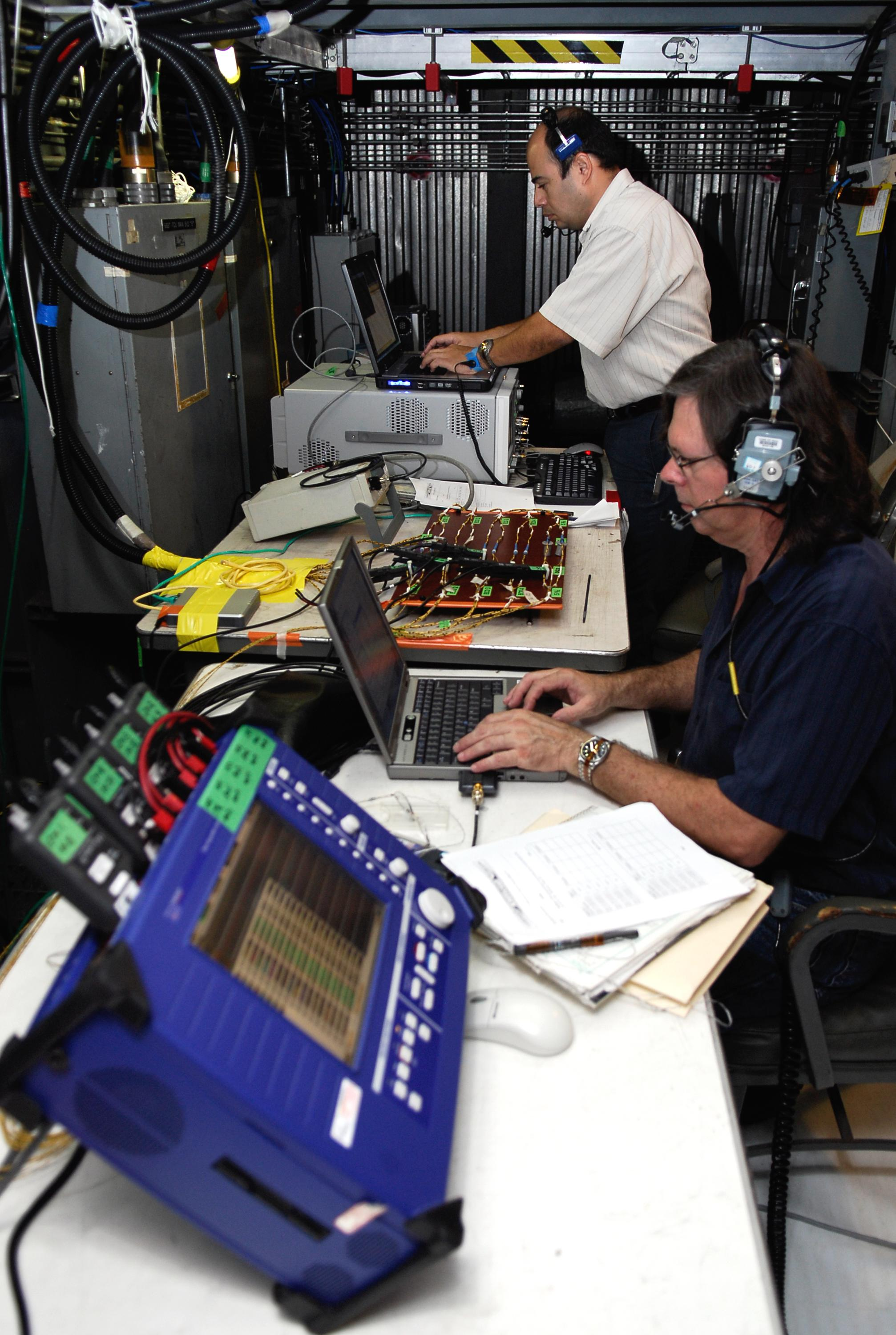 On Launch Pad 39A at NASA's Kennedy Space Center, the wiring is checked and validated before the tanking test on space shuttle Atlantis' external tank set for Dec. 18. The test wiring has been spliced into an electrical harness in the aft main engine compartment connected with the engine cut-off, or ECO, sensor system. The attached wiring leads to the interior of the mobile launcher platform where the time domain reflectometry, or TDR, test equipment is located.